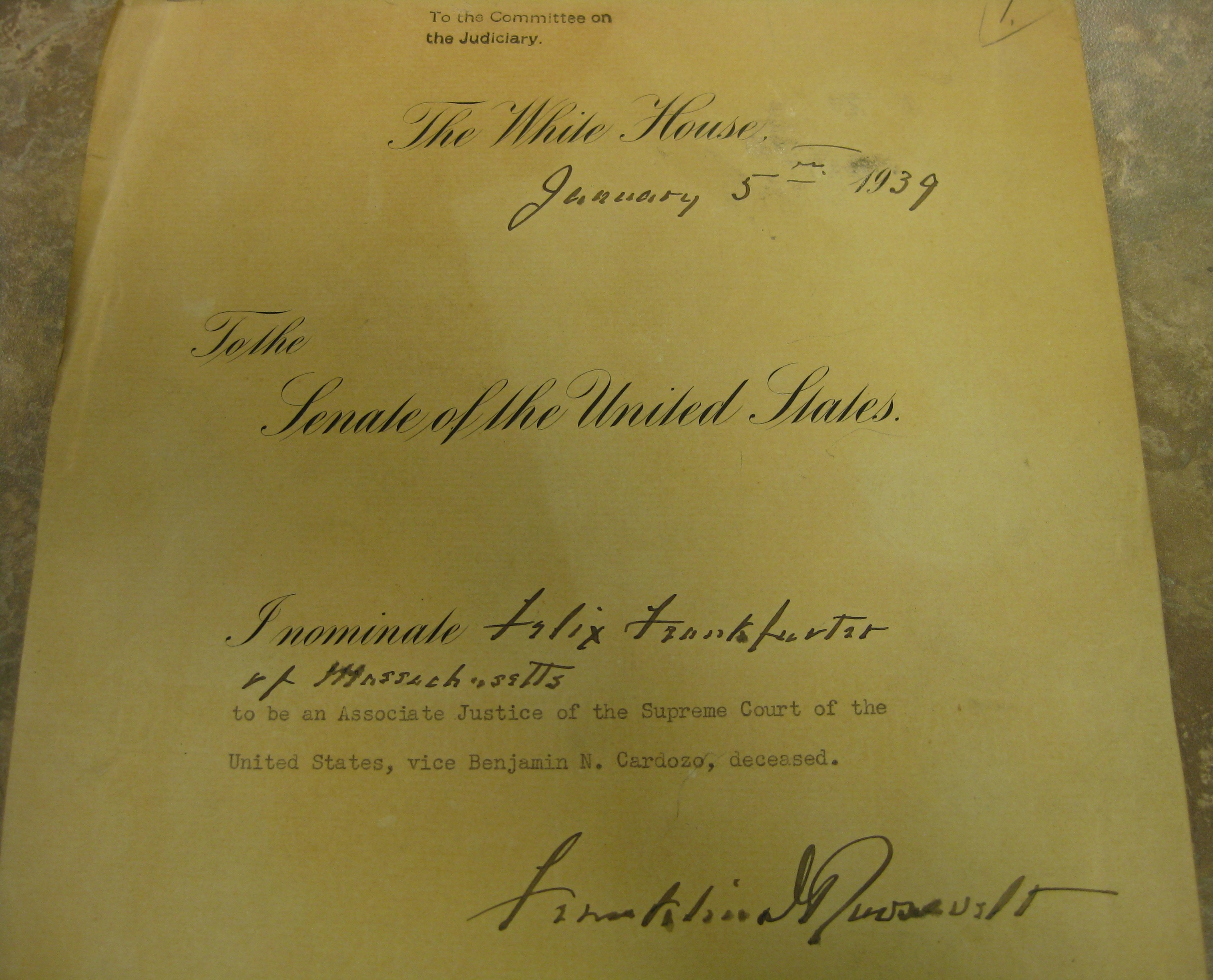 Franklin Roosevelt's nomination of Felix Frankfurter to serve on the U.S. Supreme Court. Courtesy of the National Archives and Records Administration.